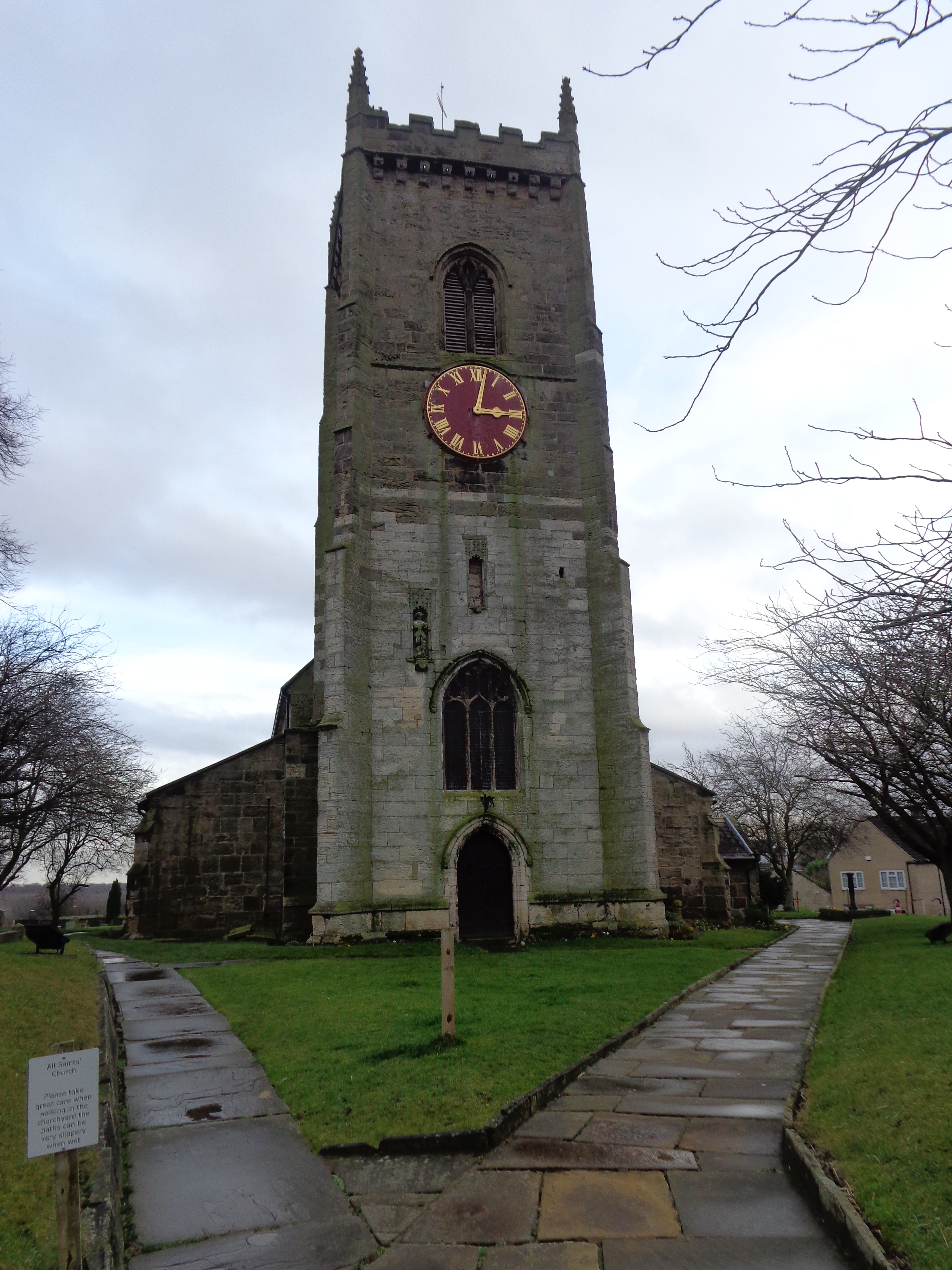 All Saints' Parish Church, Barwick-in-Elmet, Leeds, West Yorkshire. Taken on the afternoon of Saturday the 18th of January 2014.